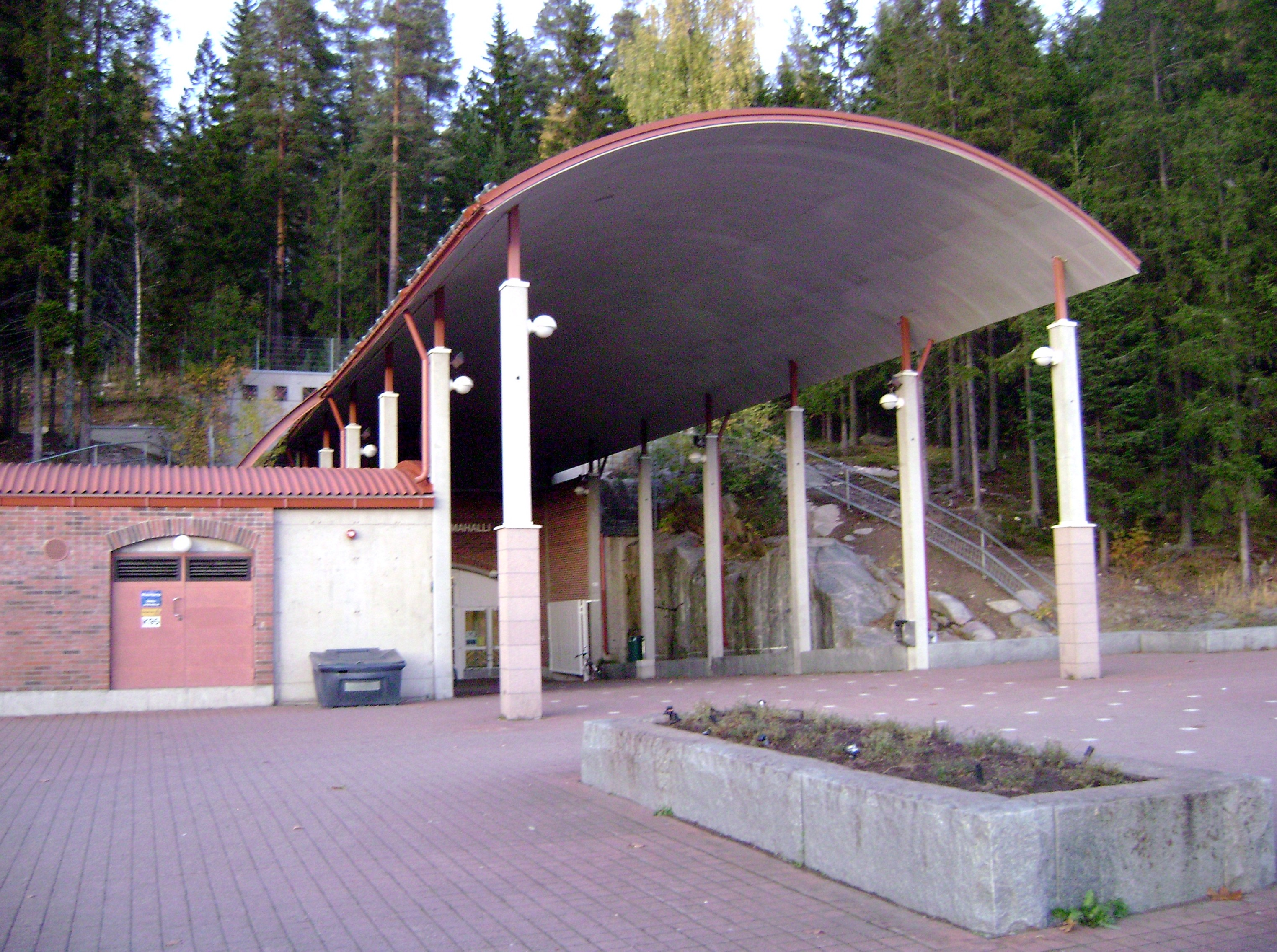 Entrace to Lippumäki swimming hall and ice hall in Petonen, Kuopio.